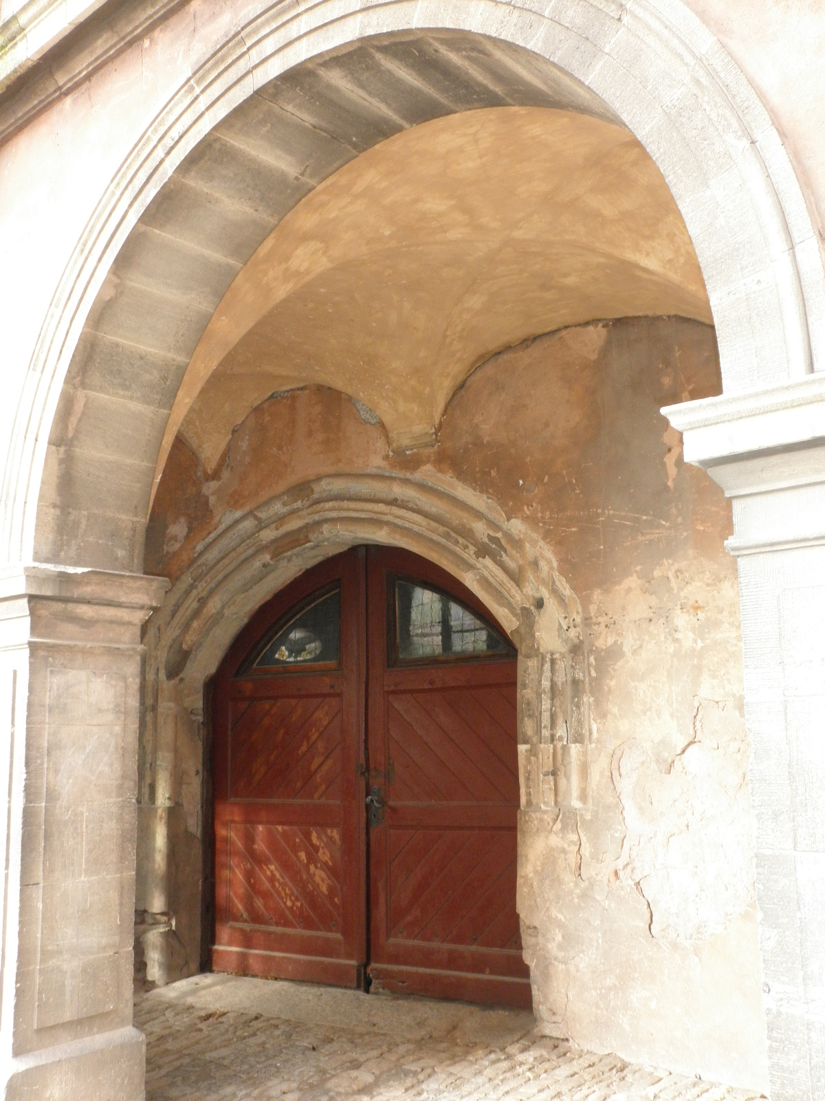 Entrance to Cellars of Castle in Sondershausen in Thuringia